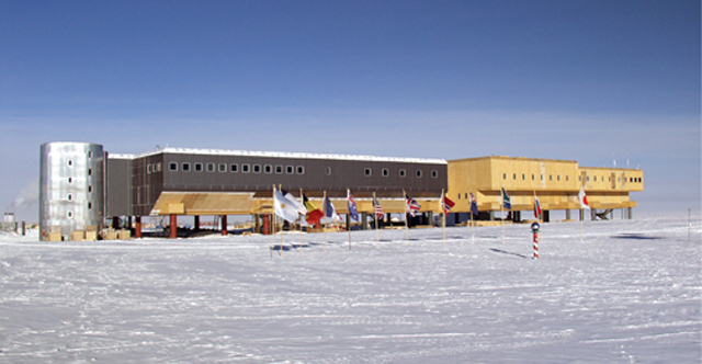 Amundsen-Scott South Pole Station. The new elevated station nears completion. In the foreground is the ceremonial South Pole and the flags for the original 12 signatory nations to Antarctic Treaty.